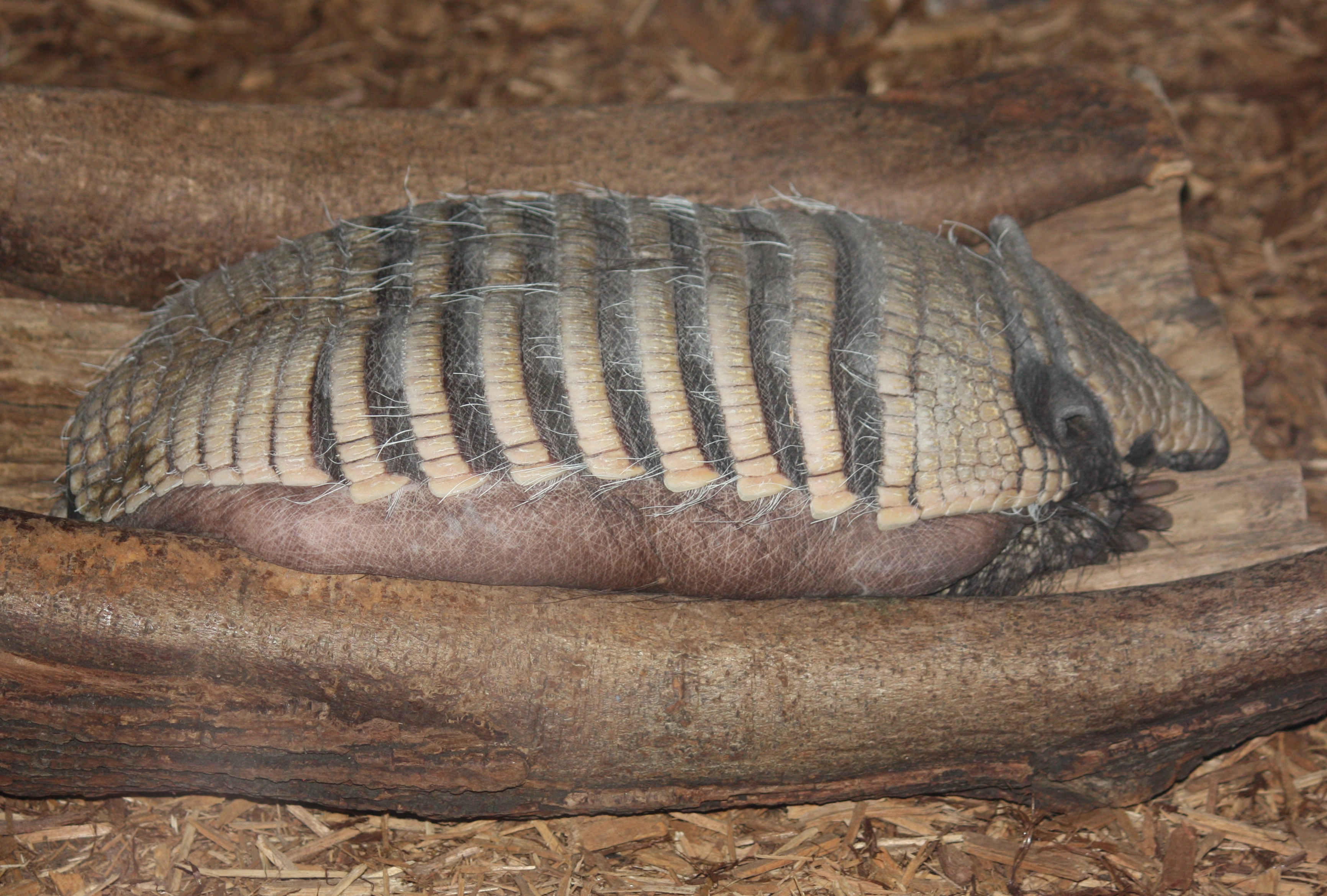 Six Banded Armadillo Euphractus sexcinctus at Cincinnati Zoo